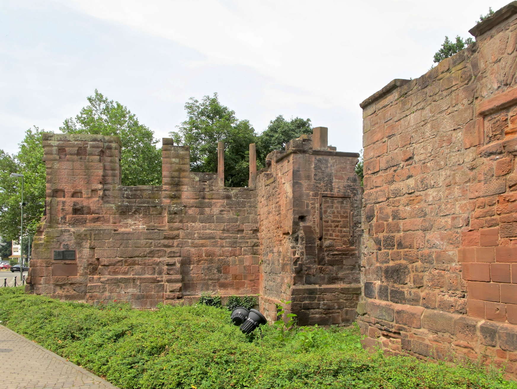 Ruins of Palace "Kaiserpfalz"